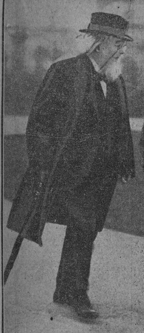 Appears in the book shown on the Internet Archive, appears to have been clipped from a newspaper and glued into the book. The original caption reads "Mr. Sigerson and Sir Thomas Gratton Esmonde arriving at the Senate yesterday." George Sigerson was elected in 1922. File should be in the public domain in the USA as it was published before 1923.